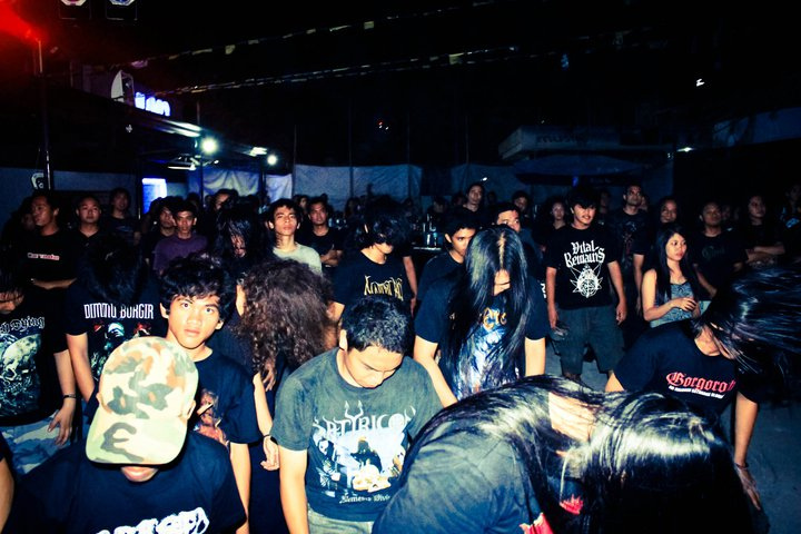 Asian metalheads headbanging to Nervecell @ their gig in the philippinian city Cebu City on 1st of May 2011